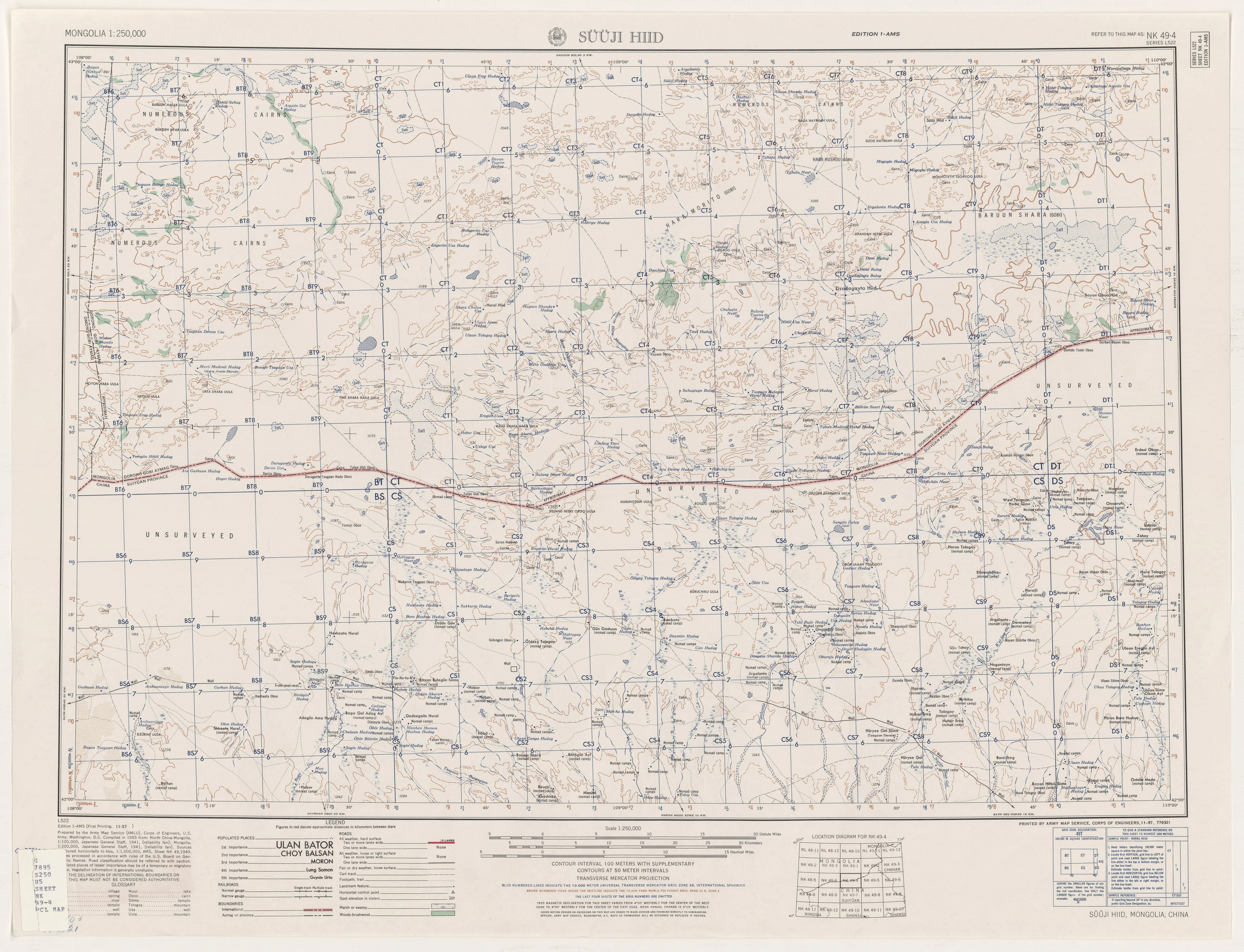 Map of Süüji Hiid area, Mongolia